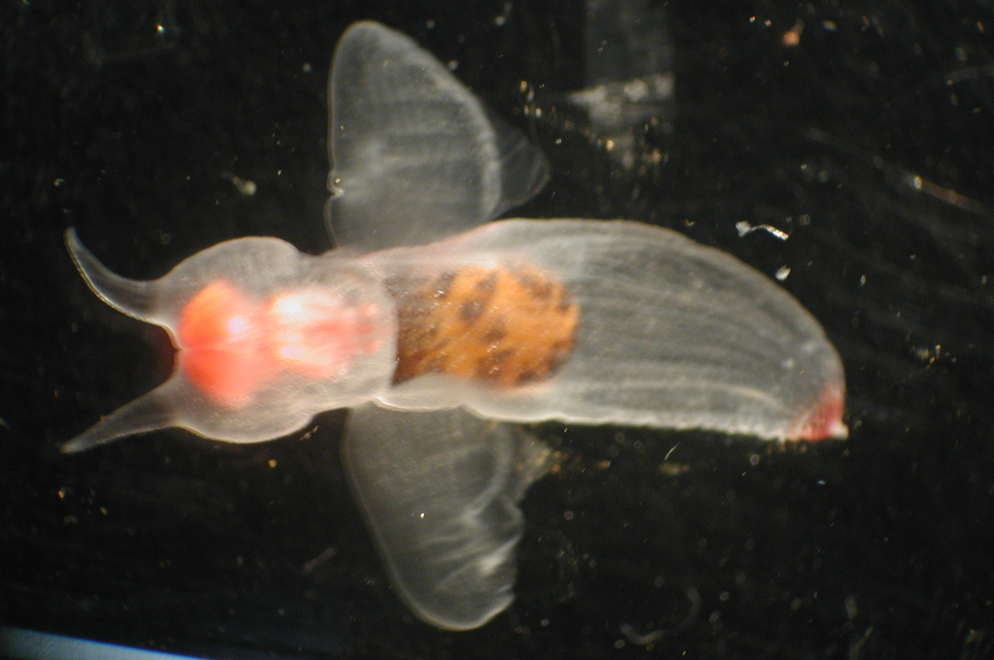 Zooplankton. Clione limacina, a shell-less cold water gastropod.